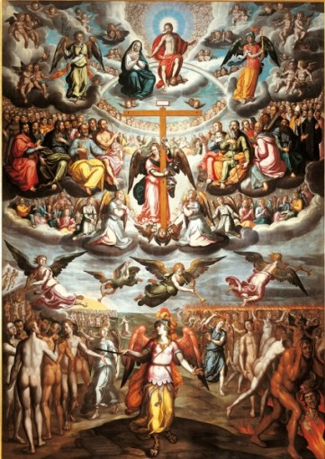 Lo Judici Final ("The Last Judgment"), oil on canvas, 3,40x2,36 m.